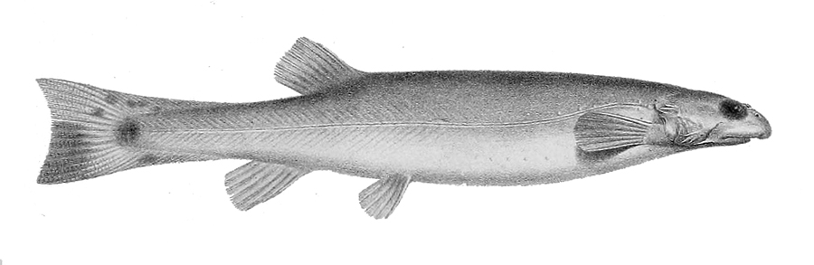 Henonemus macrops